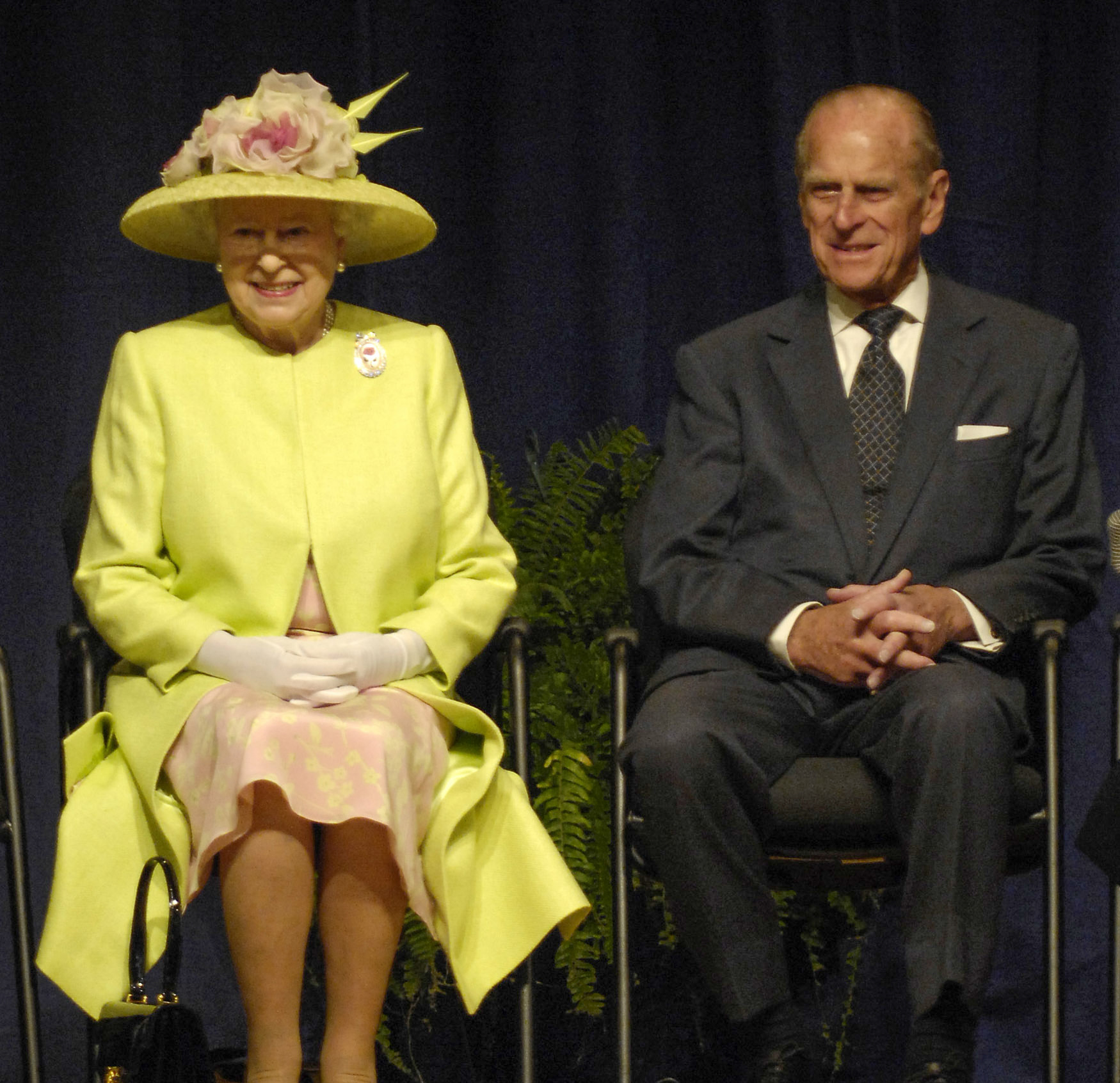 Queen Elizabeth II, left, and Prince Philip, Duke of Edinburgh, right, are seen during a visit to the NASA Goddard Space Flight Center in Greenbelt, Maryland.